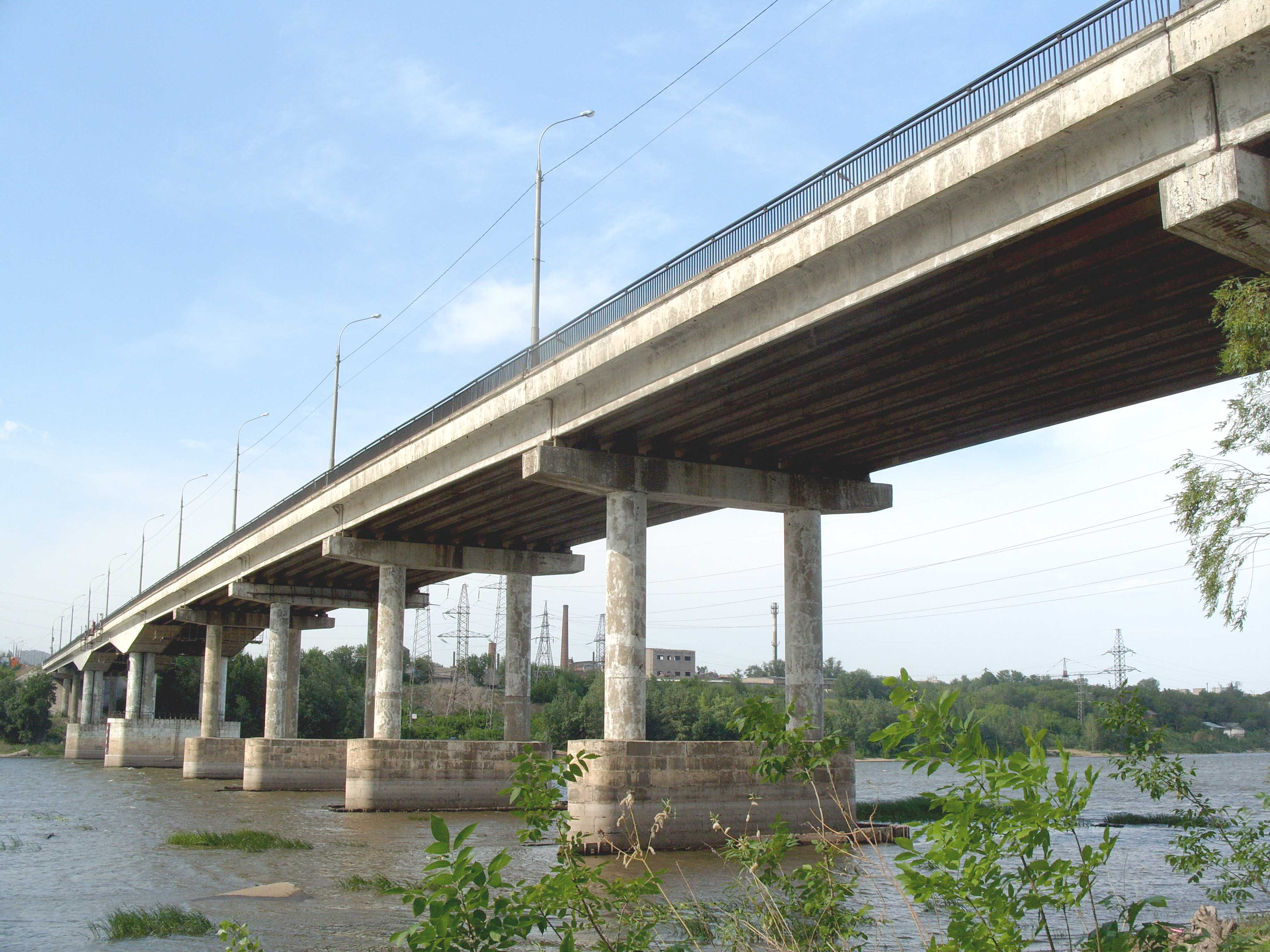 South bridge over Samara river